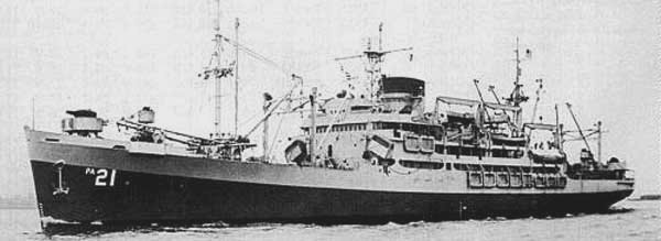 USS Crescent City (APA-21) underway, date and place unknown